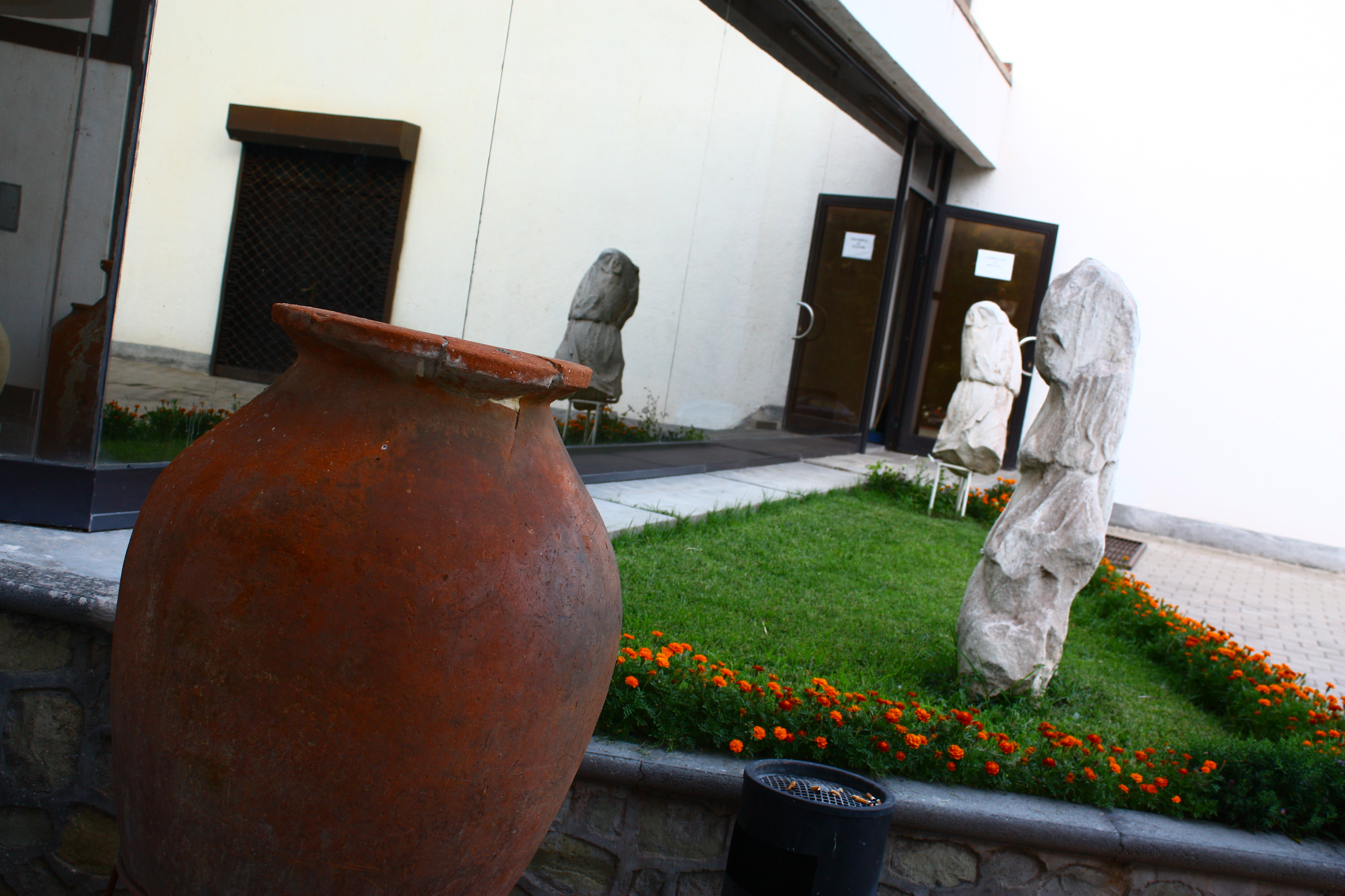 National Museum in Štip, Macedonia